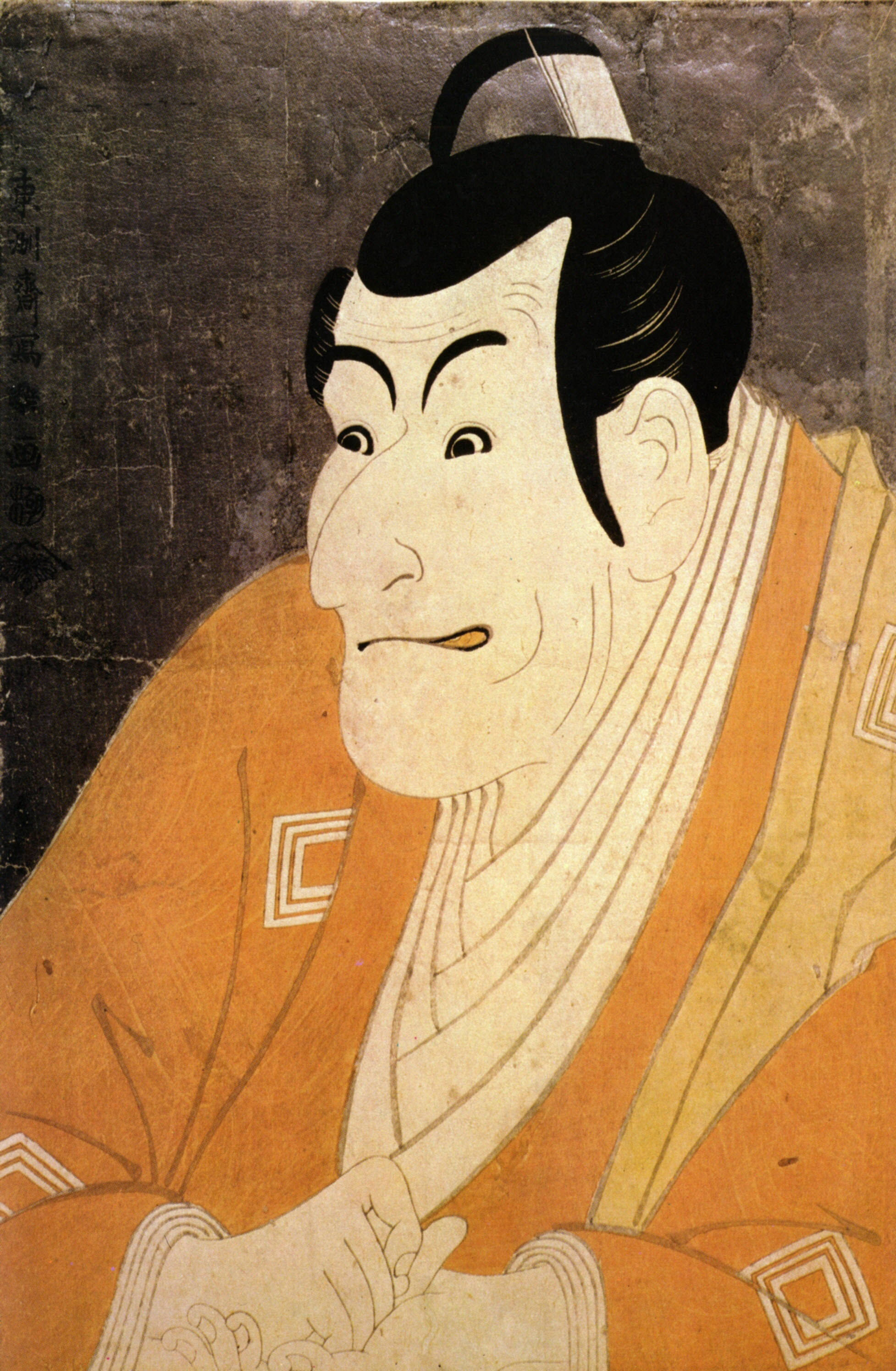 Ichikawa Ebizō (formerly Ichikawa Danjūrō V) as Takemura Sadanoshin in the kabuki play "Koi-nyōbō Somewake Tazuna"